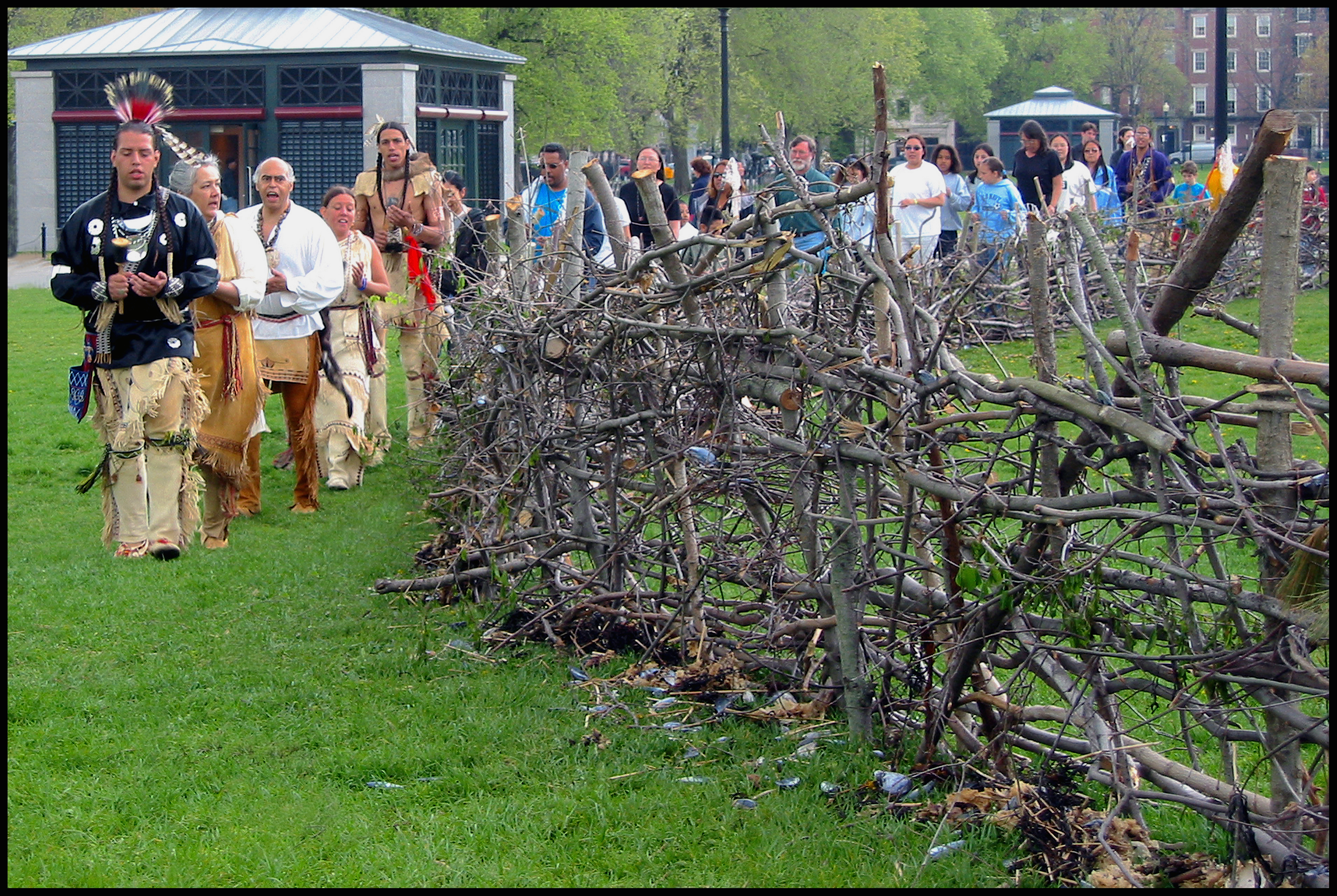 Wampanoag and Massachuset Tribal members with Boston public school students celebrate annual Ancient Fishweir Project.